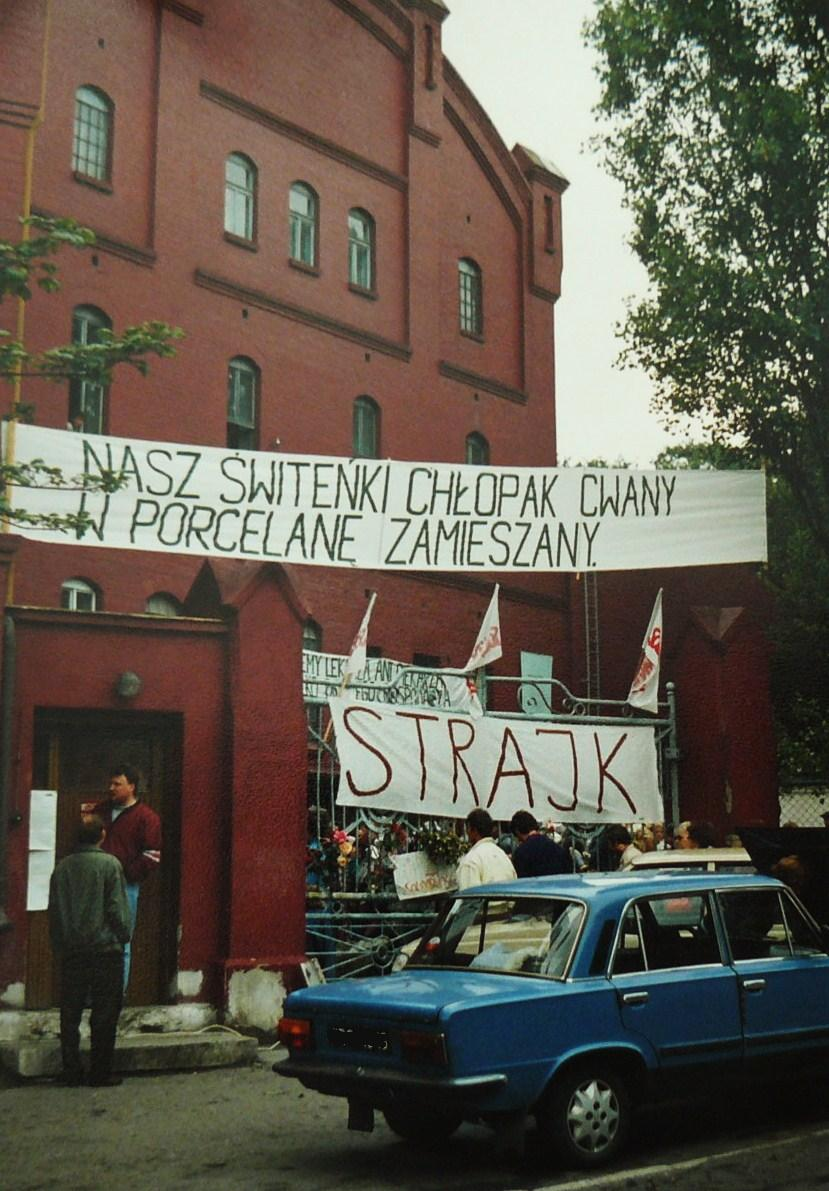 Strike action in Porcelana Walbrzych - 6.7.1993.